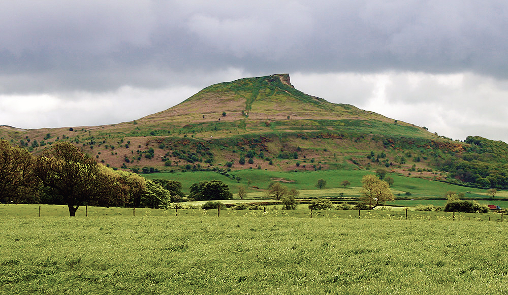 View of north side of Roseberry Topping, as seen from the Guisborough Branch Walkway. By ChrisO, 29 May 2006